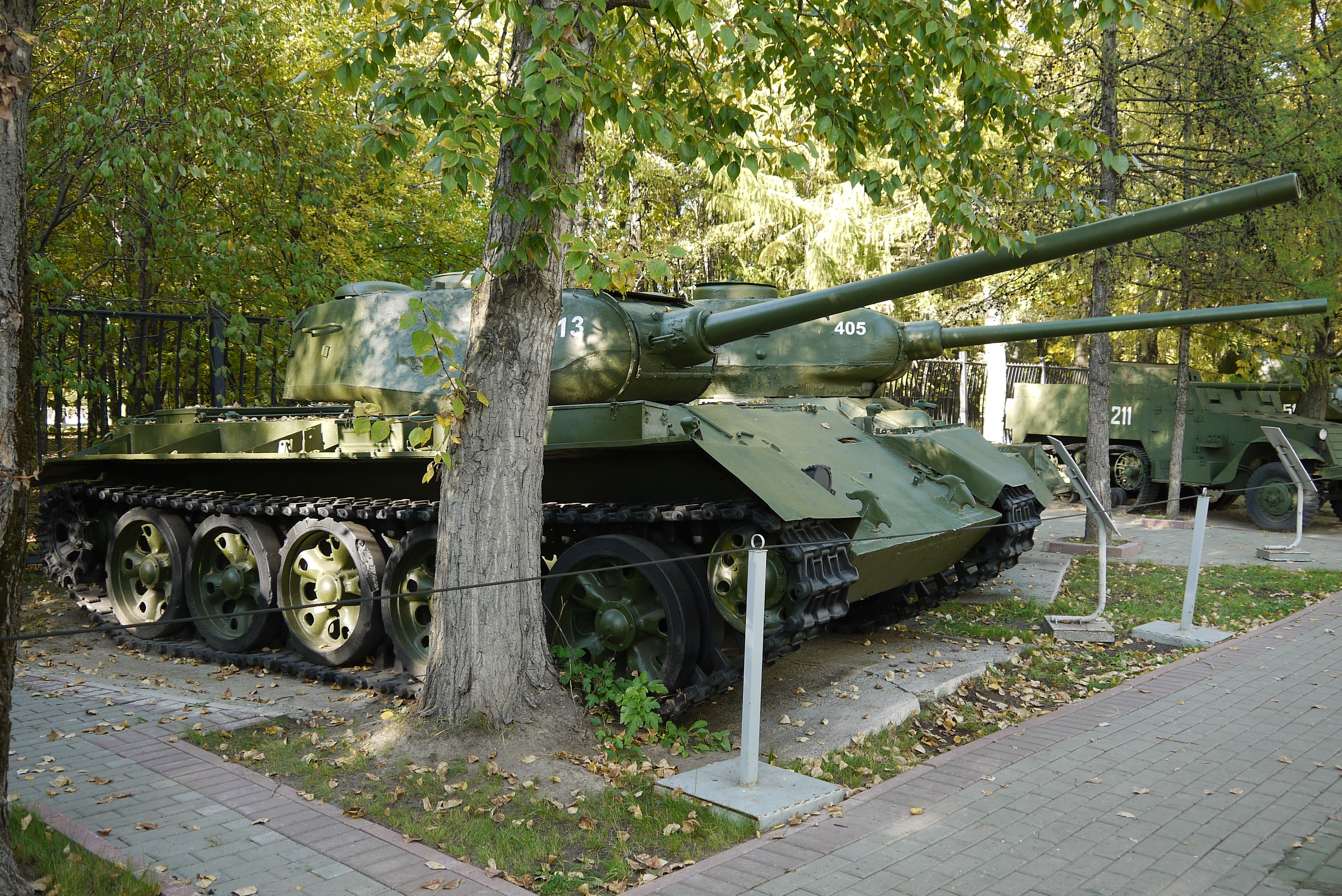 Soviet T44 tank. It is displayed in the Museum of the Great Patriotic War, Moscow, Poklonnaya Hill Victory Park